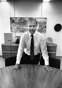 Jean-Noël Rey